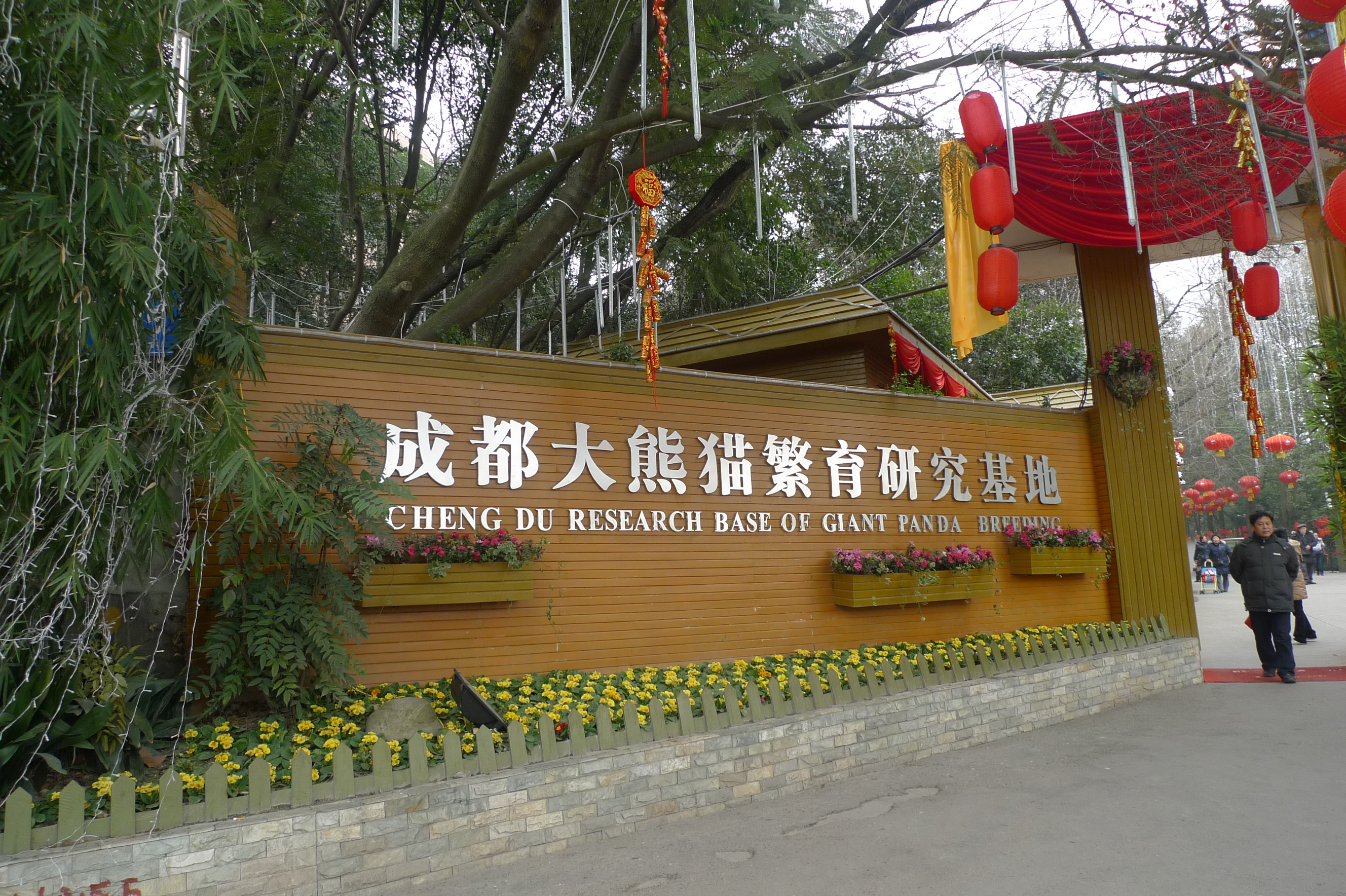 Chengdu Research Base of Giant Panda Breeding